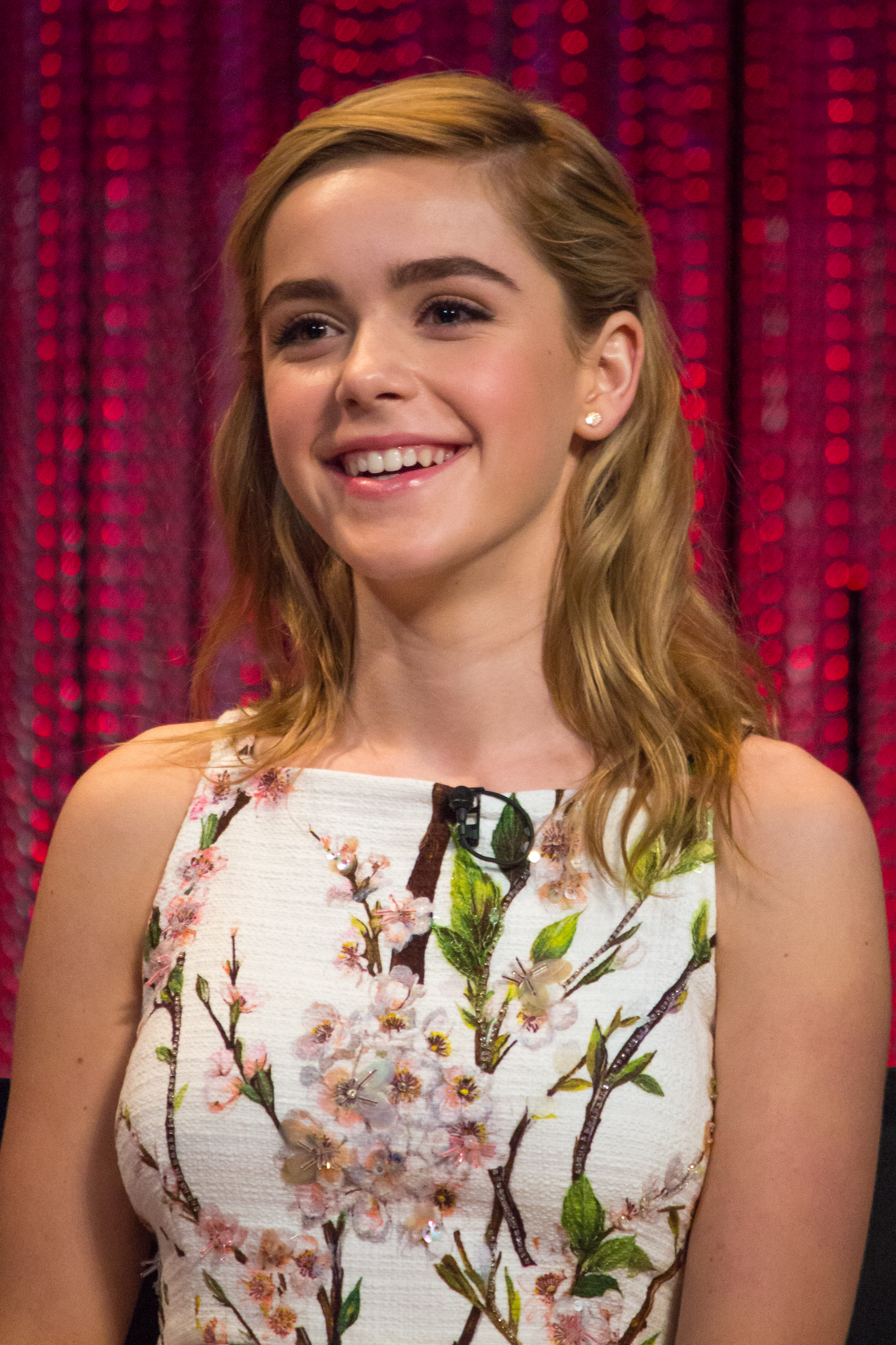 Actress Kiernan Shipka at The Paley Center For Media's PaleyFest 2014 Honoring "Mad Men"